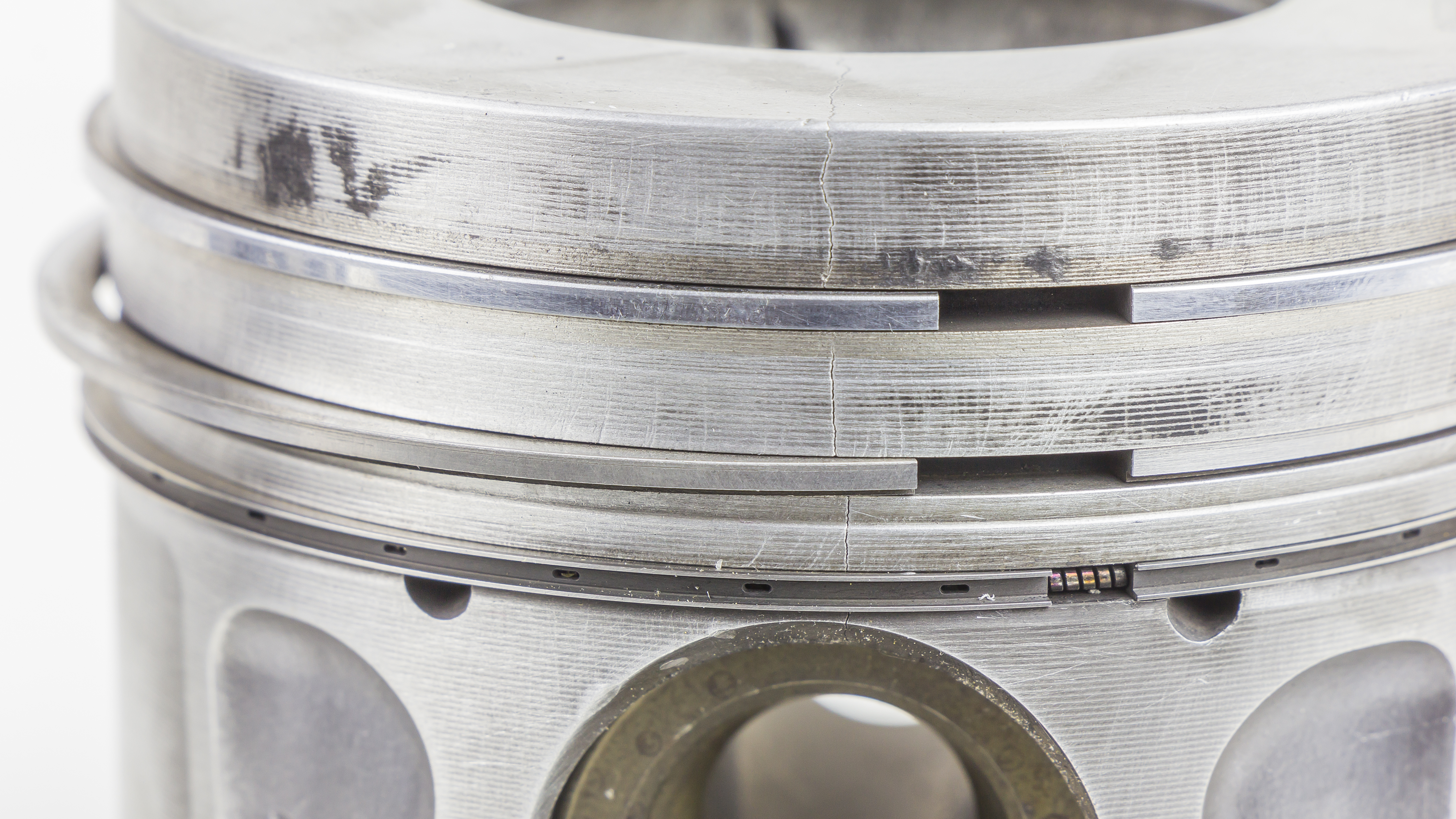 Nüral piston H268X, detail side/top view of piston rings (compression rings and oil scraper ring), showing a crack across the piston crown. Was used in the Diesel engine of a CITROËN JUMPER 2.2 HDi 120